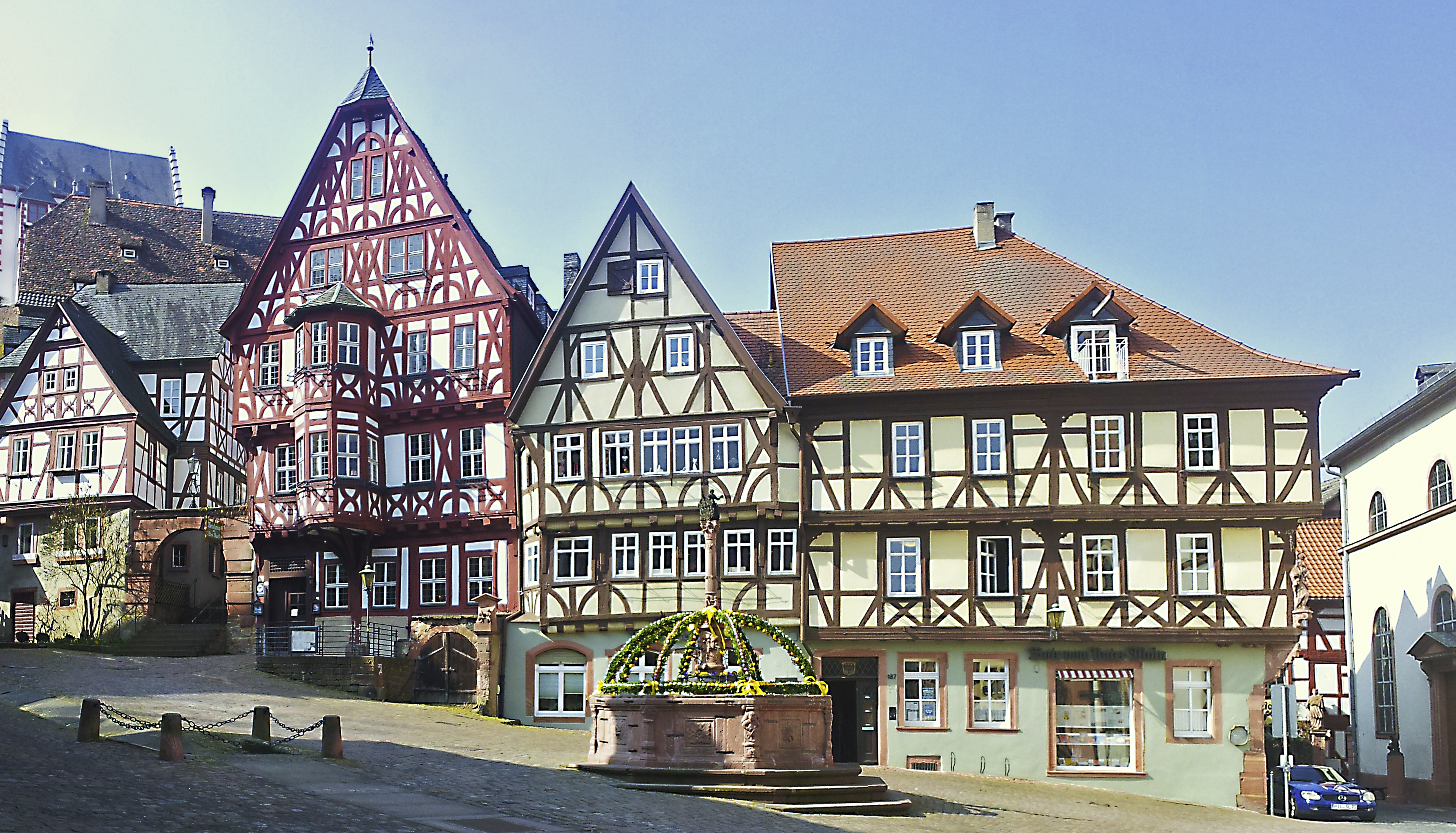 Marketplace in Miltenberg at the River Main/Bavaria/Germany